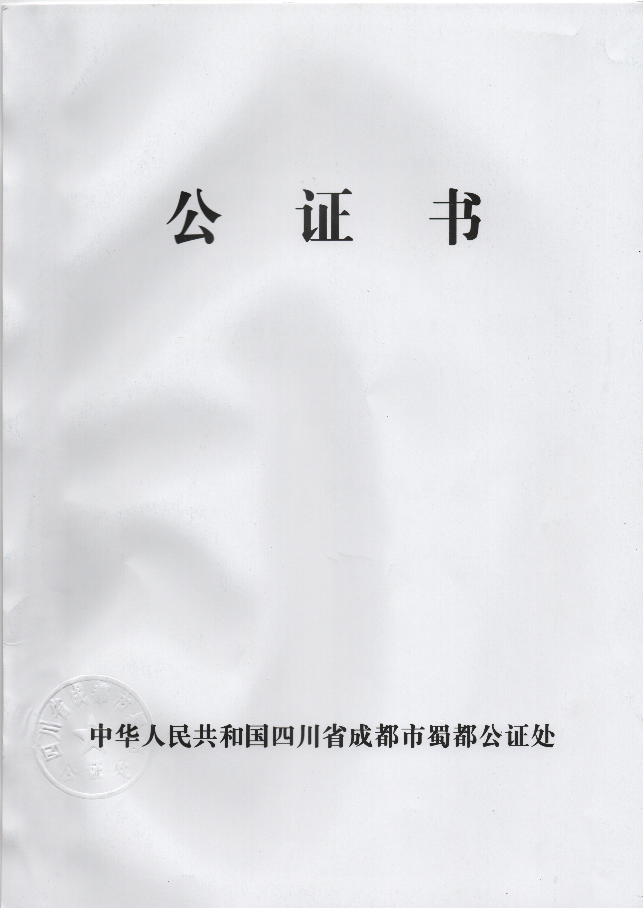 A notarial certificate provided by a notary office of P.R.China.